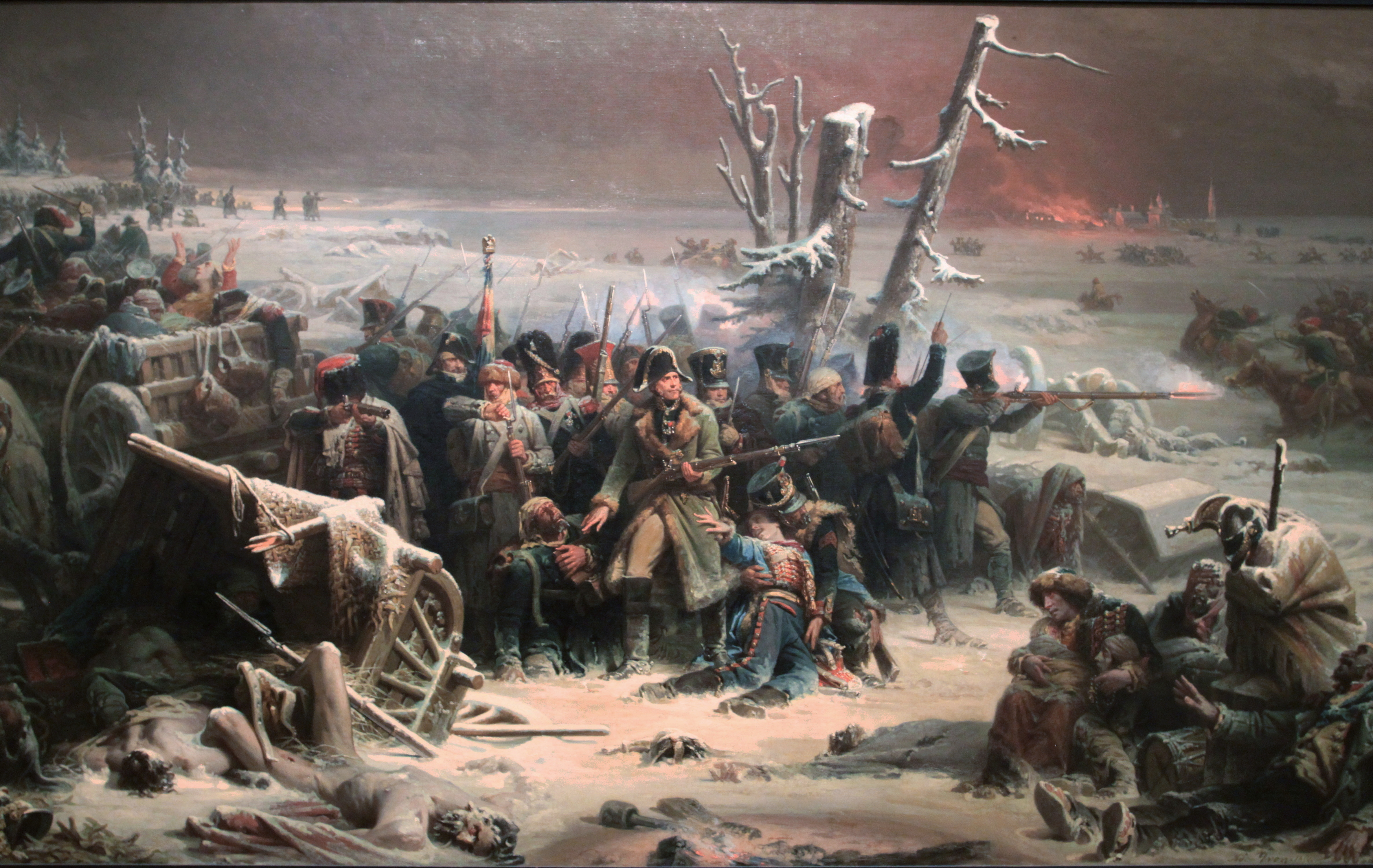 Marshall Ney supporting the Rear Guard During the Retreat from Moscow, on exhibition at the Manchester Art Gallery.